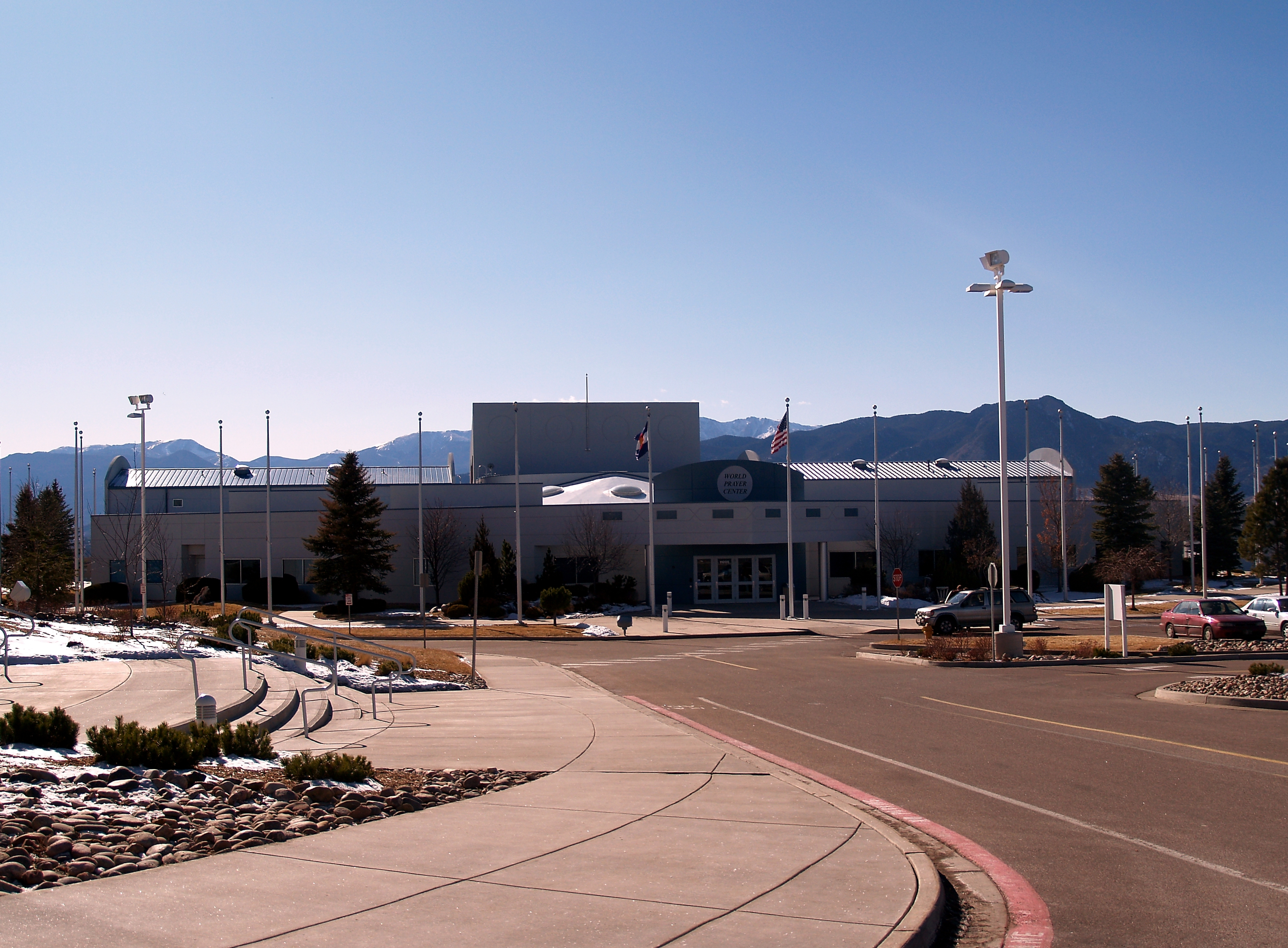 Ted Haggard-founded New Life Church in Colorado Springs, Colorado. Read about the photographer's experience taking this photo.